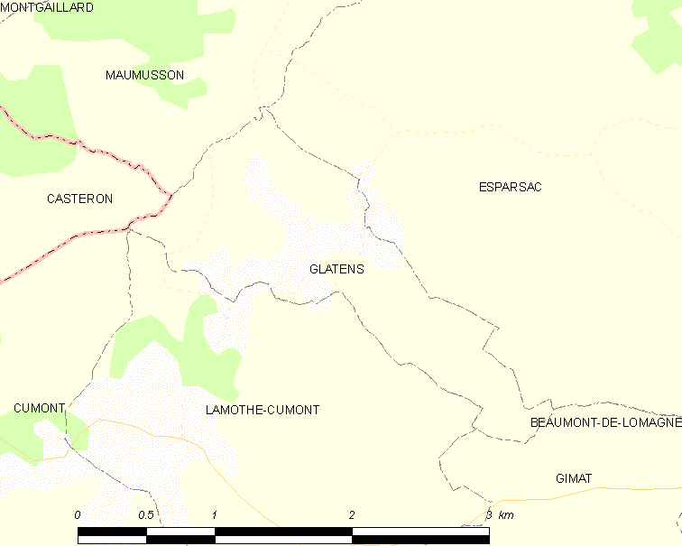 Map of French municipality Glatens